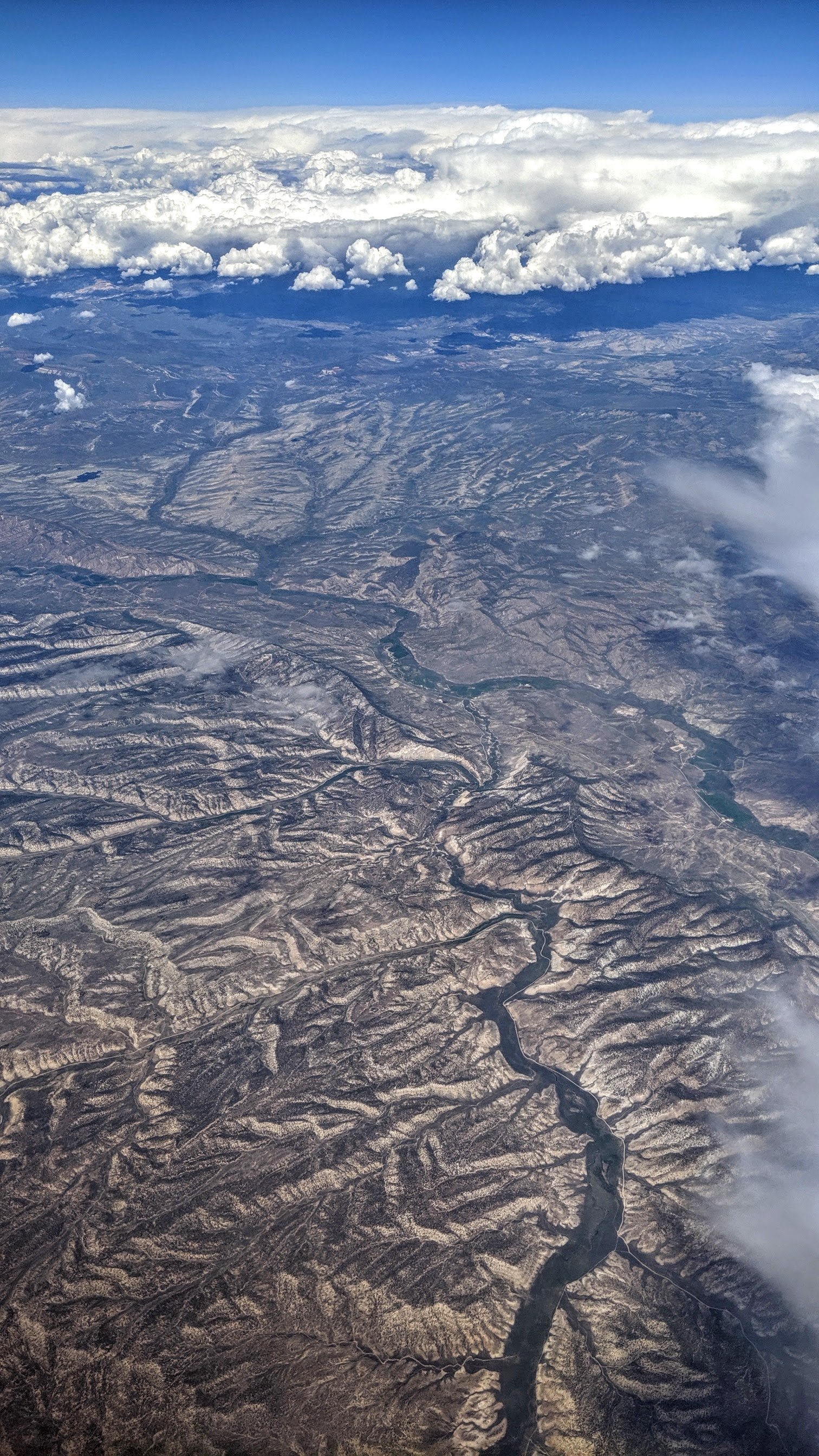 Aerial view from the south of Yellow Creek approaching the White River, in Colorado